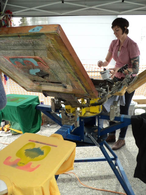 Treefort t-shirts being silkscreened at the main venue by a local business (the Bricolage art & crafts gallery) which volunteered its time. Very DIY & grass roots --you could buy a blank t-shirt for $20 or use one of your own for $10!